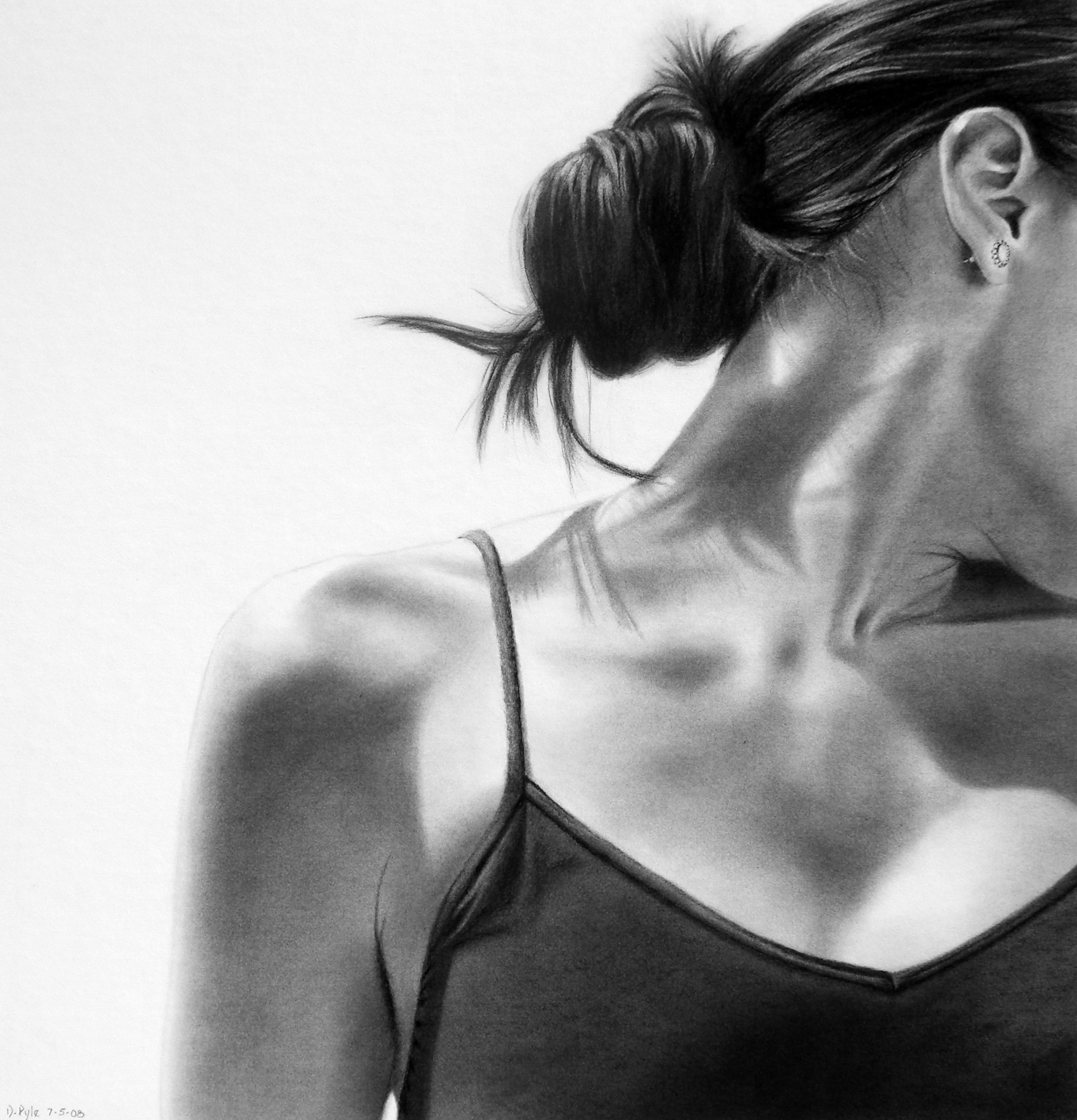 Dan PYLE's painting "Lost in the Moment"